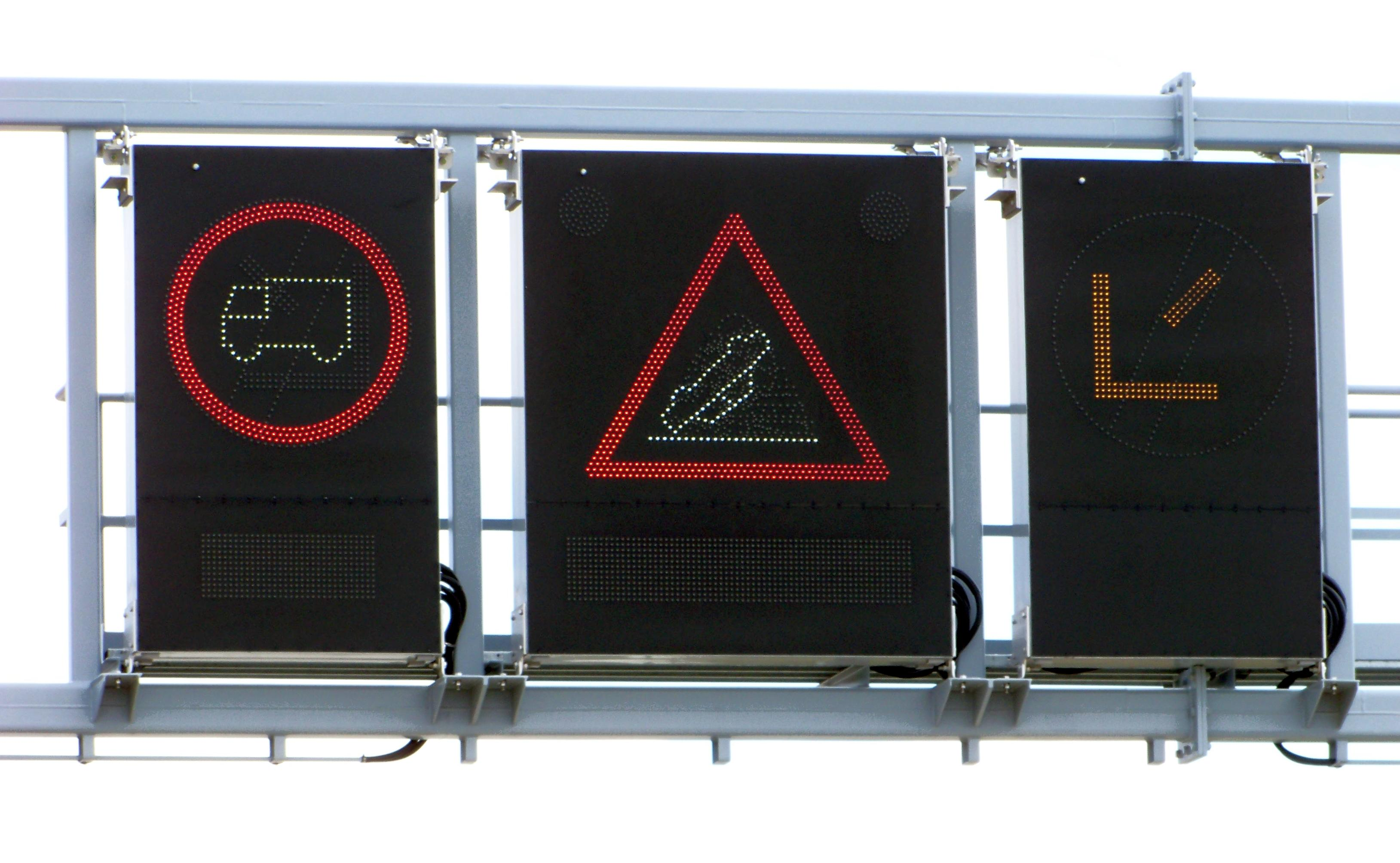 Prague-Cholupice, the Czech Republic. Open Doors Day of the new section of Prague Beltway. Variable road signs.